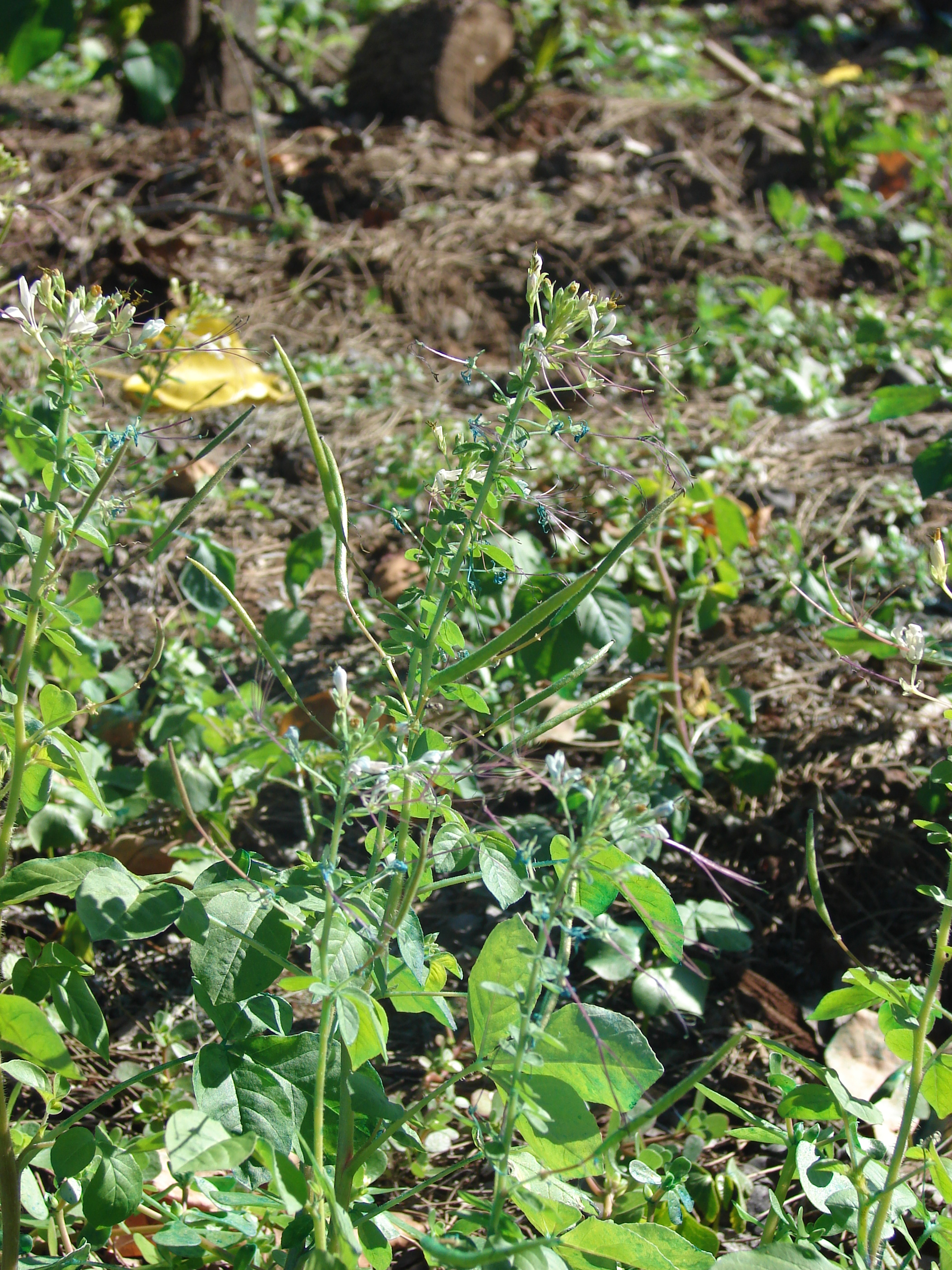 Cleome gynandra (habit after herbicide). Location: Maui, Kanaha Beach